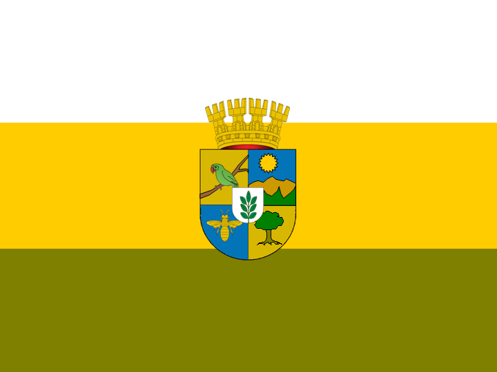 Flag of Requinoa commune (Chile)